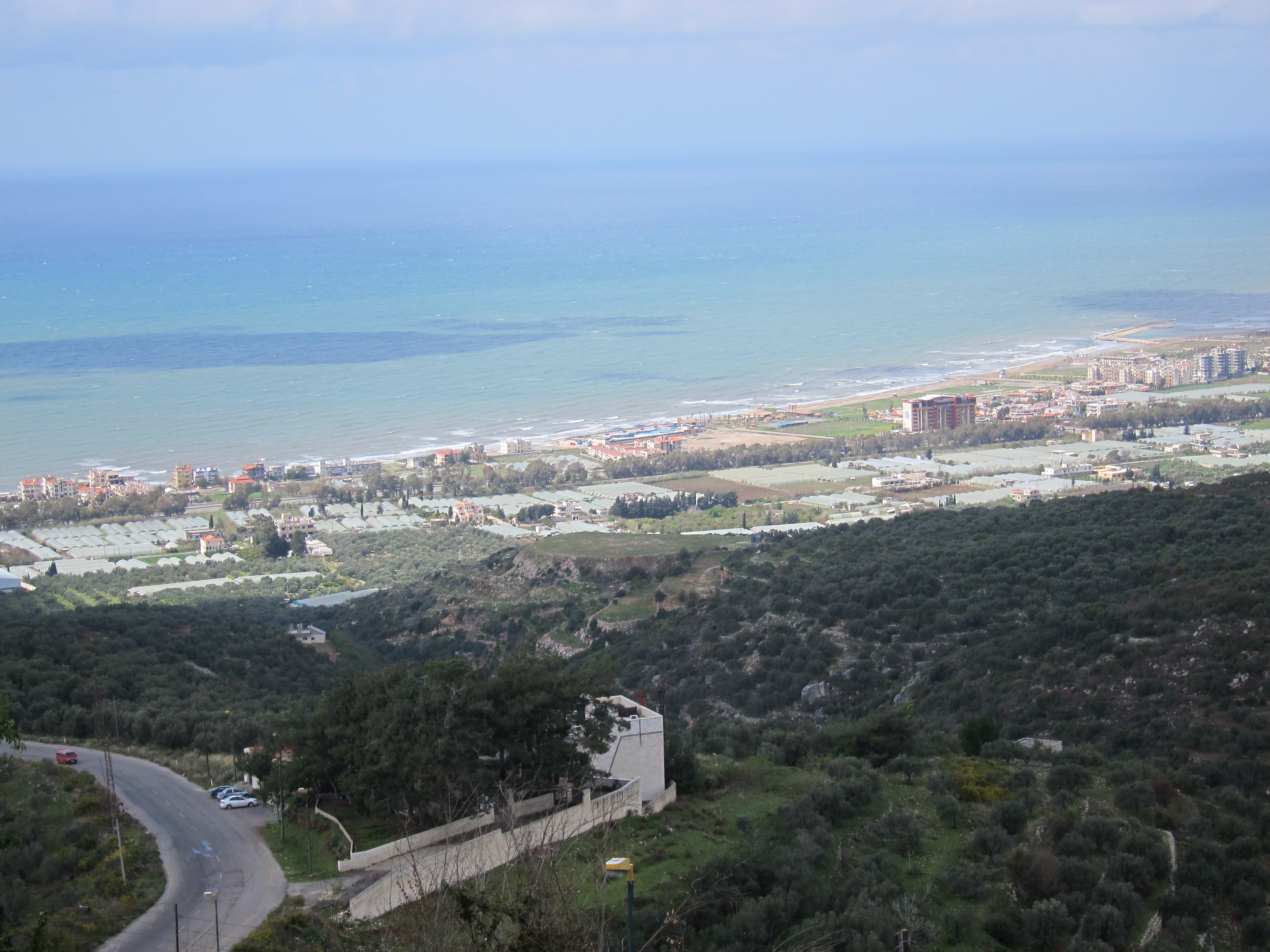 Uploaded by Sammer